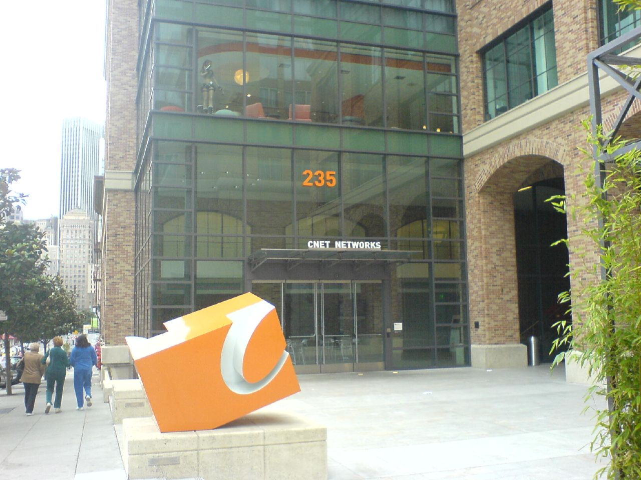 CNET Networks headquarters in San Francisco, California